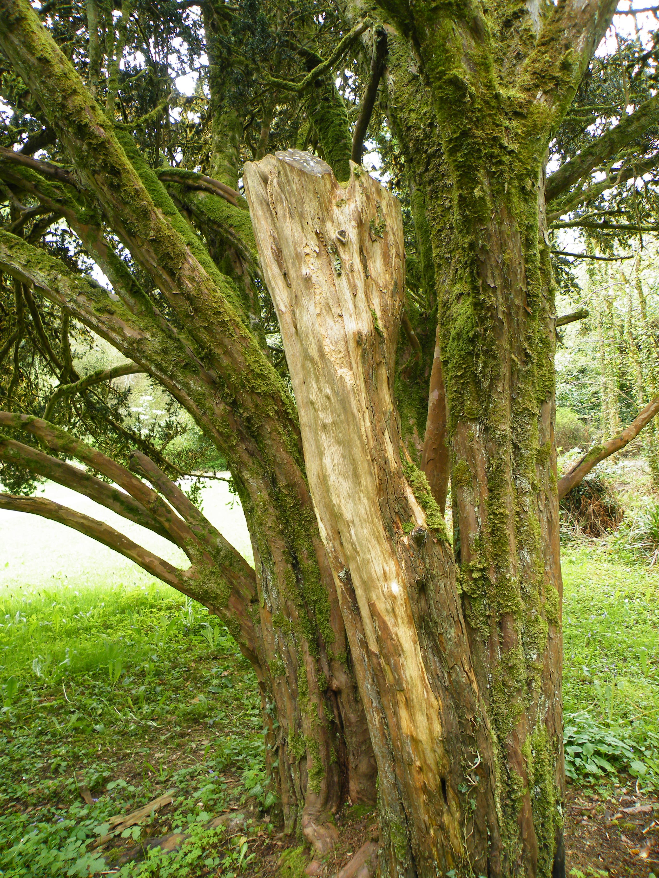 Trunk of Florencecourt Yew, Grounds of Florence Court Estate